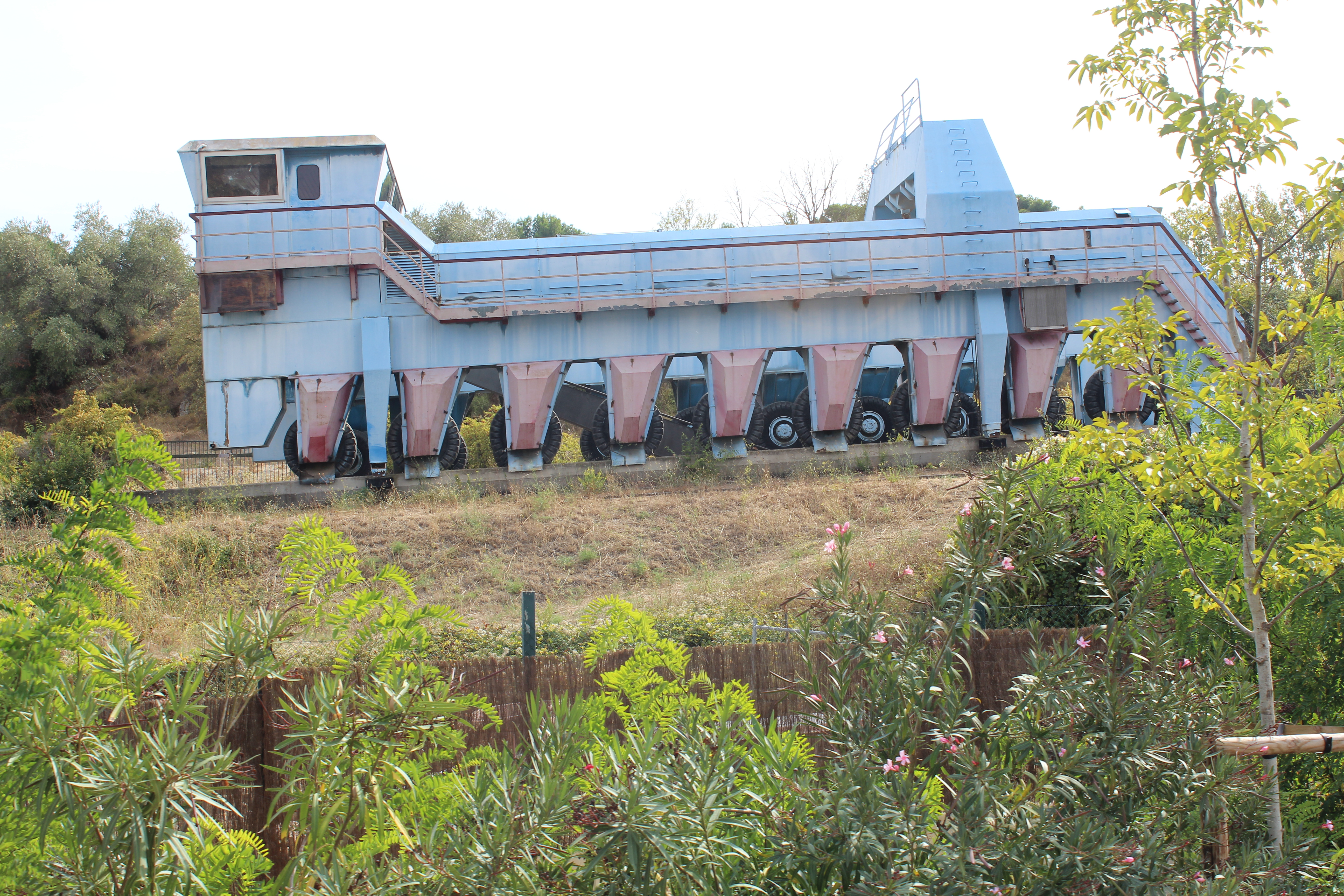 Fonserannes Water Slope Tractor that was designed to carry vessels of up to 350 tonnes up the Fonserannes Water Slope parallel to the Fonserannes Locks. The tractor was first tested in 1984 never fully commissioned. The project was abandoned in 2001.